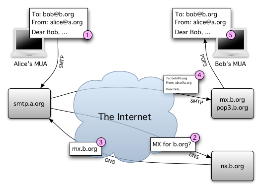 Diagram showing a typical sequence of events that takes place when composing/sending/receiving e-mail